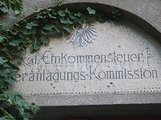 Entry to the old tax office at Rothenburg street 17 at Berlin-Steglitz